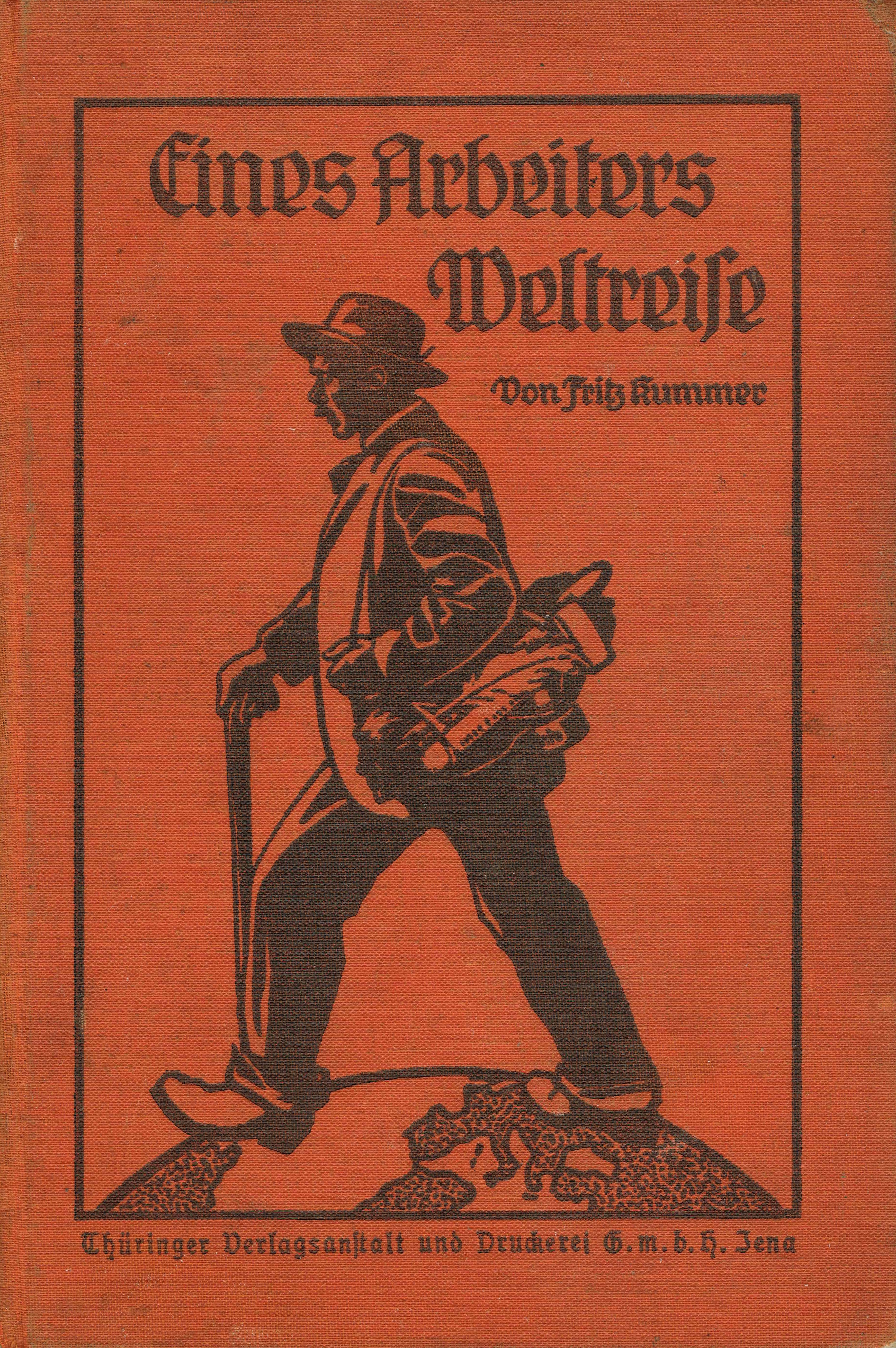 Kummer, Fritz, »Eines Arbeiters Weltreise«, Cover, 2nd edition, Publisher: Thüringer Verlagsanstalt und Druckerei G.m.b.H., Jena 1924